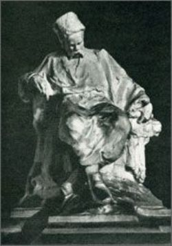 A draft of a monument to Taras Shevchenko in Kyiv by Italian sculptor Antonio Shiortino. The monument had to be erected in Kyiv in 1914, but it didn't happen due to opposition by official Russian authorities and the break of WW1